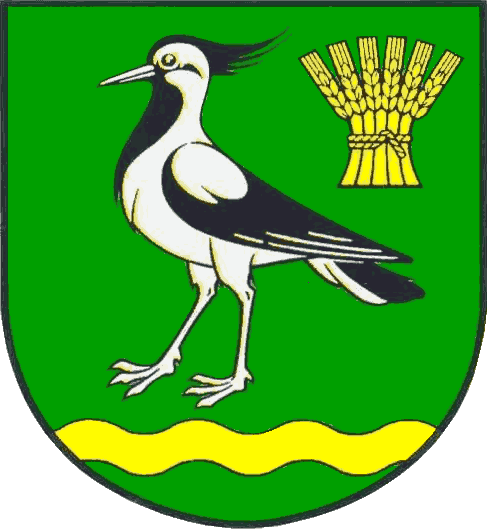 Coat of arms of the municipality Klein Rheide in Schleswig-Holstein, Germany.